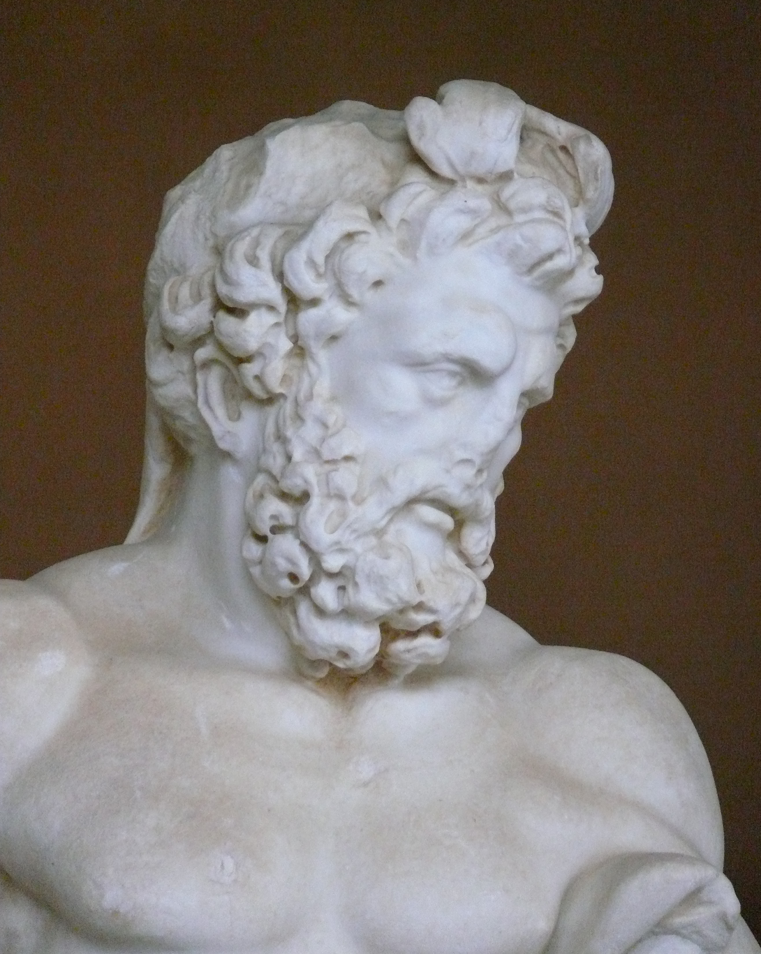 2nd century statue of Hercules (Roman period) in the Side Archaeological Museum (Side, Turkey).